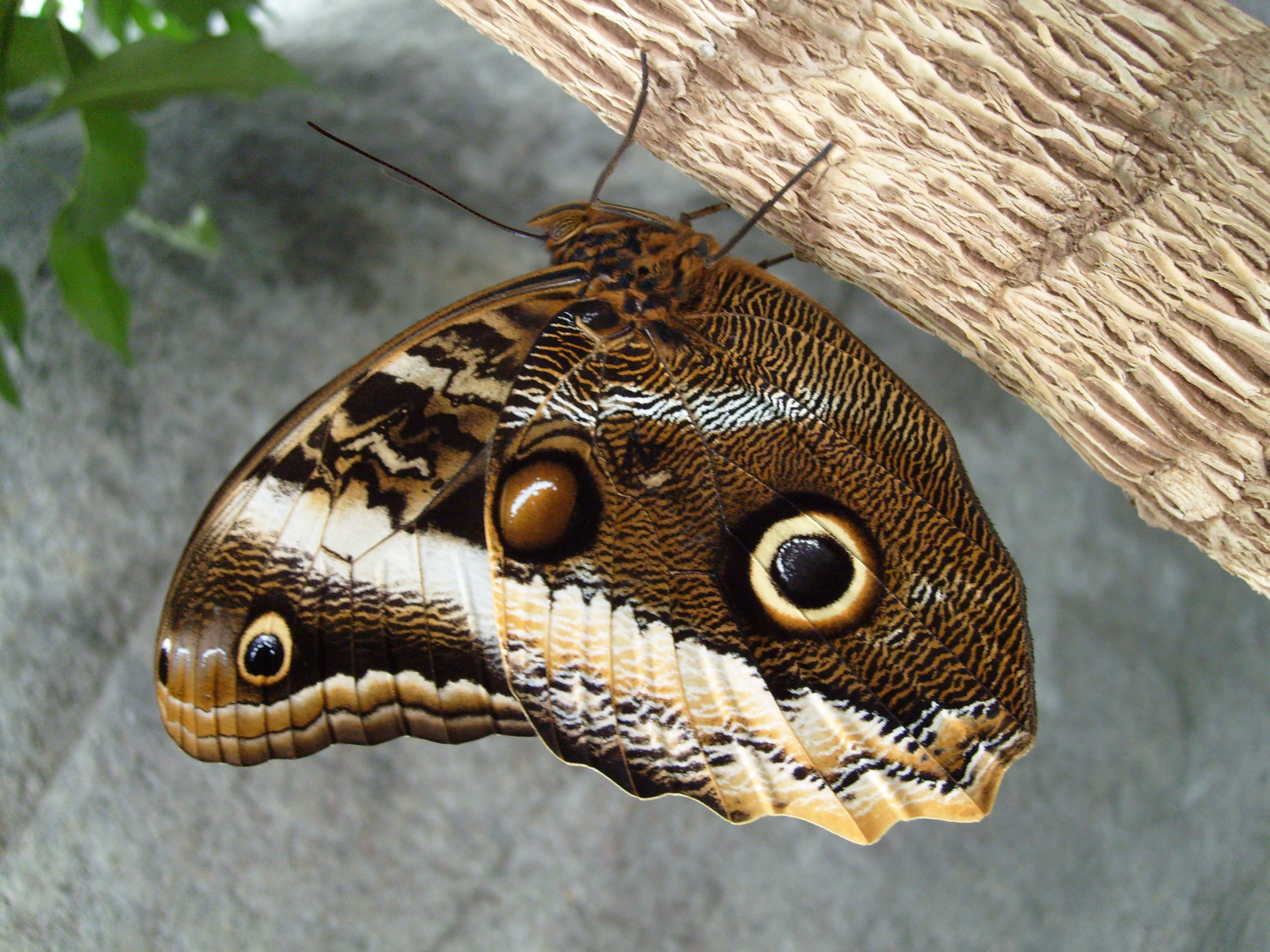 Caligo or Owl butterfly.